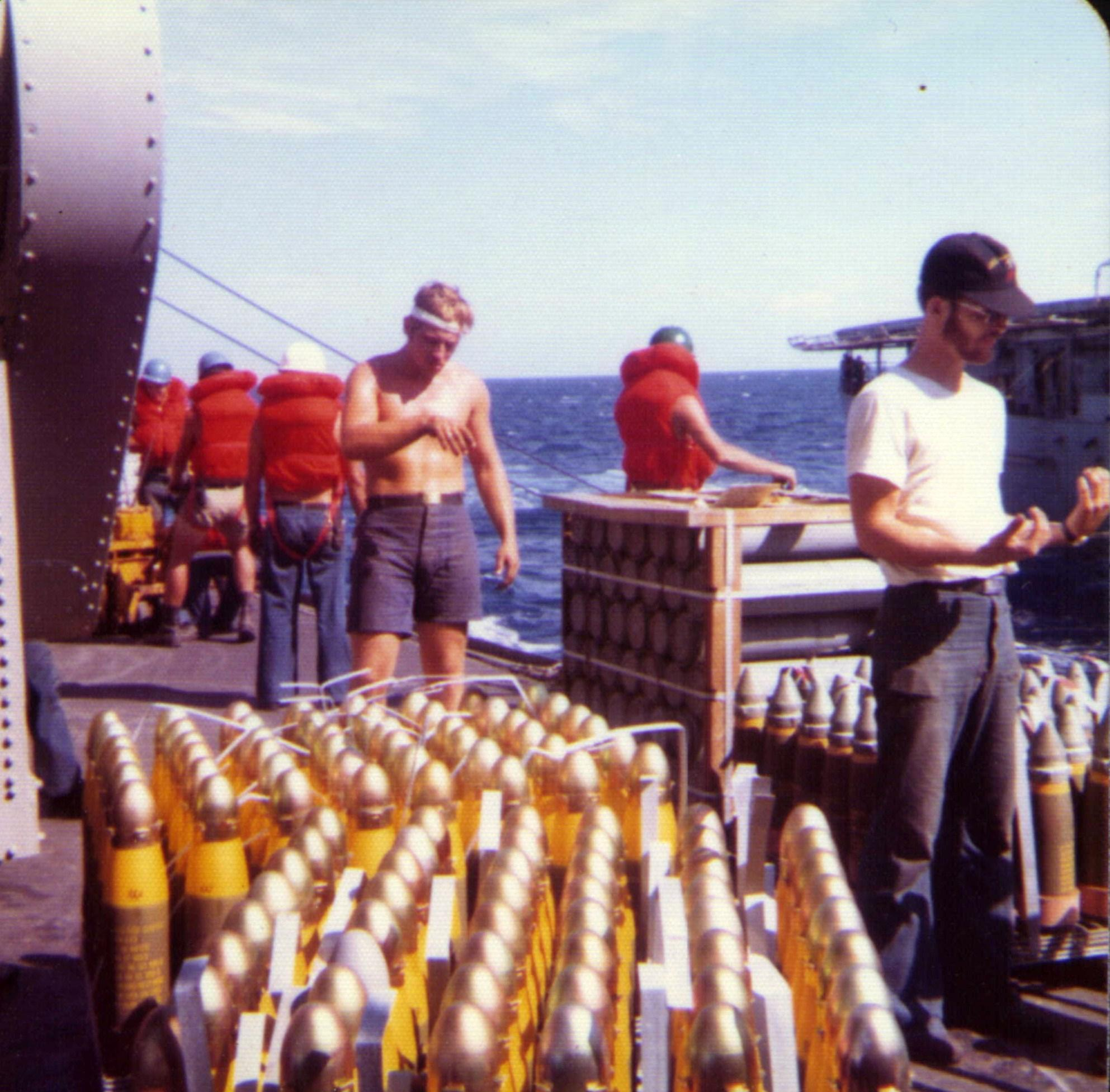 12.7 cm ammunition aboard the U.S. Navy destroyer USS Hanson (DD-832) in the Gulf of Tonkin, in 1972.